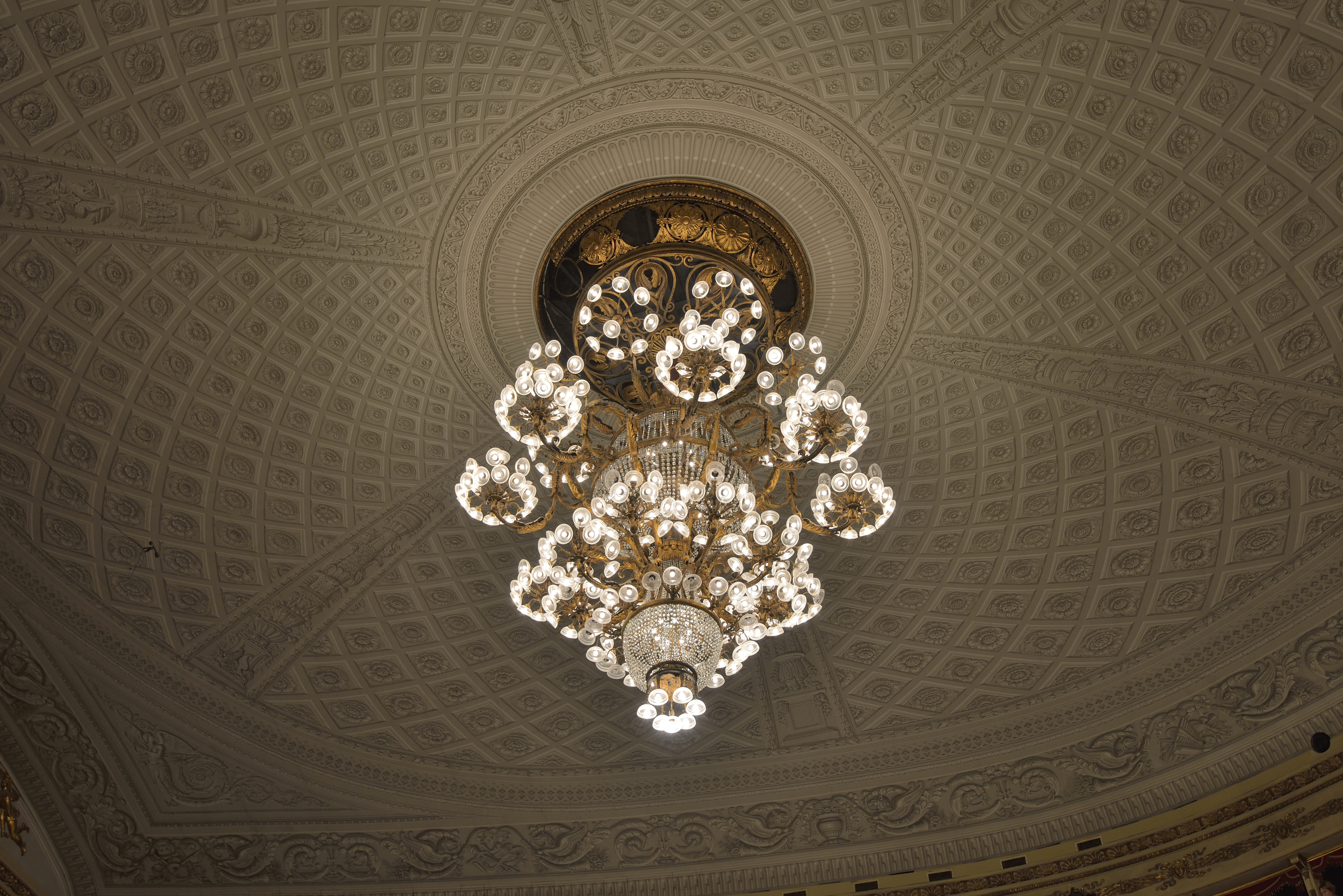 Chandelier (weight 1000 Kg) in the Teatro alla Scala opera house in Milan